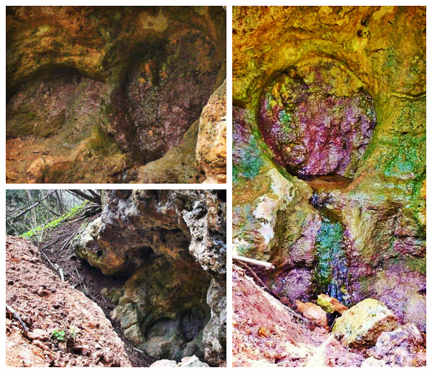 Bailovo Sanctuary Stone Suns and Holly Spring